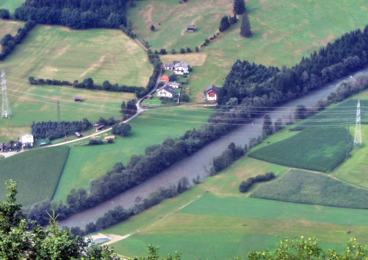 The river Möll near Penk, Katastralgemeinde Penk, Gemeinde Reißeck, Bezirk Spittal an der Drau, Carinthia, Austria seen from Zwenberg.